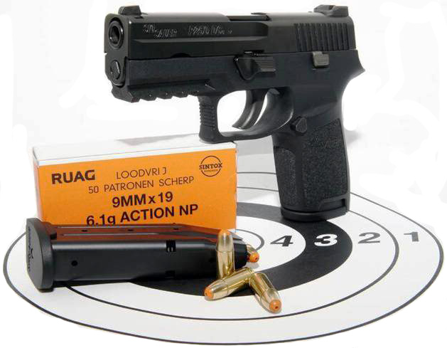 SIG-SAUER PPNL (Politie Pistool Nederland - Police Pistol Netherlands) pistol based on the SIG-Sauer P250 DCc. For the recording of weapon specific data, a passive RFID transponder is integrated into the weapon. The stored data can be read via an external unit. The SIG-Sauer PPNL would have replaced the existing pistols; Walther P5 and Glock 17. The SIG-SAUER PPNL order was however canceled due by the Dutch government which started and completed a new tender process in 2012. Part of the replacement operation will be the extra training of the police officers for their qualification with the new handgun. This operation will take place from 2013 up to 2014 and will include around 40,000 police officers. During the introduction of a new pistol the special police-units and key instructors for further training will have priority. The order consist of: 42,000 service pistols (also for the Dutch Customs service) 1,250 practice pistols 700 instruction pistols 1,000 pistols adapted voor firing FX simunition 190 cut away models The ammunition chosen for the SIG-SAUER PPNL is 9x19mm Parabellum RUAG SINTOX-ACTION 4 NP (Netherlands Police) lead free ammunition loaded with 6.1 g (64 gr) solid brass hollow point plastic tip covered projectiles. The orange coloured plastic tips of the NP variant are custom made for the Netherlands Police to facilitate easy forensic identification as police ammunition.